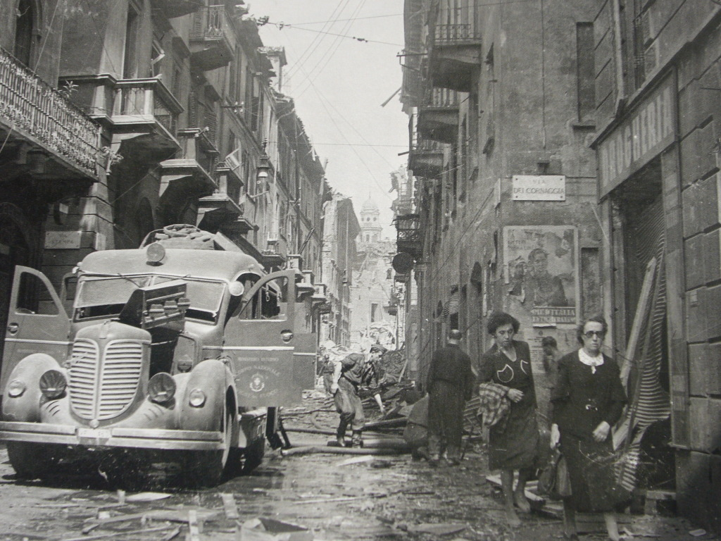 Milan (Italy) desolation in Olmetto' road (donw town), after air incursion (1943)